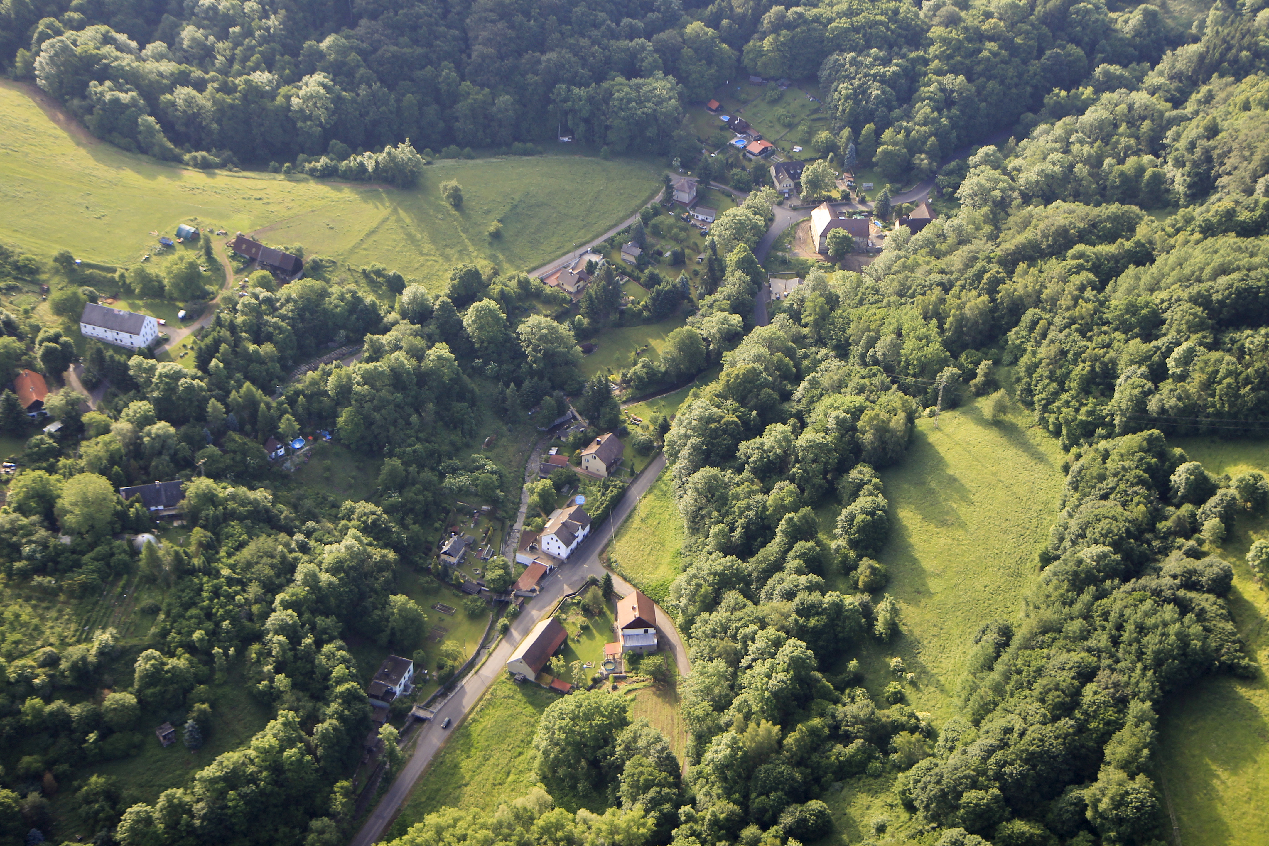 Byňov